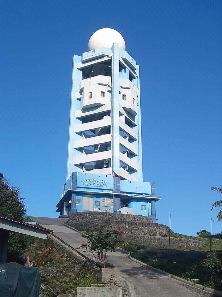 PAGASA-DOST Guiuan Weather Station